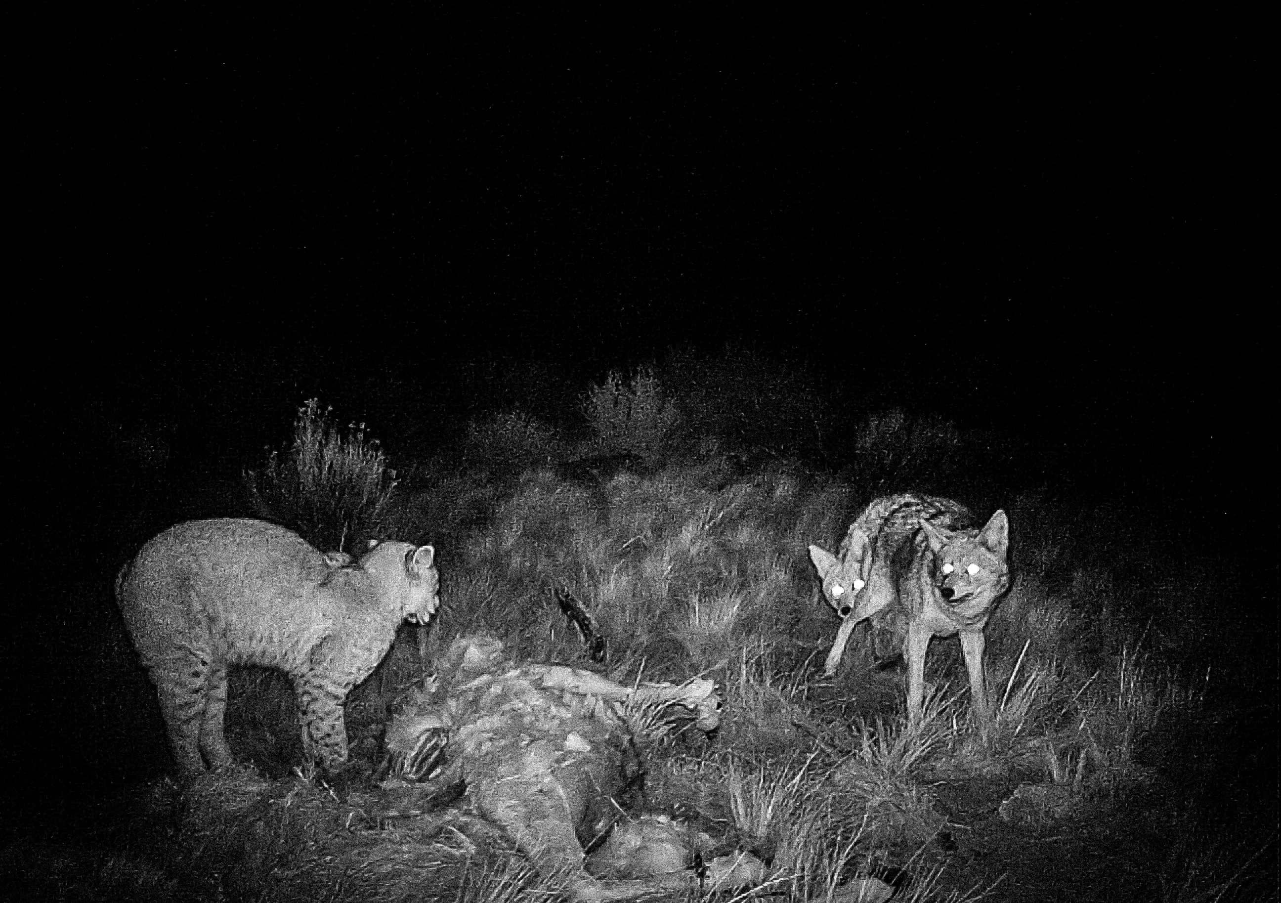 Bobcat confronting two coyotes